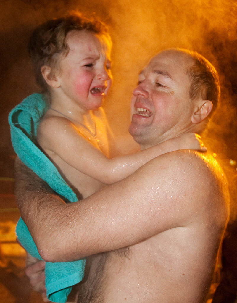 “Epiphany celebrations in Moscow”. Epiphany bathing on the Feast of Theophany in Brisovskiye Ponds, Moscow.